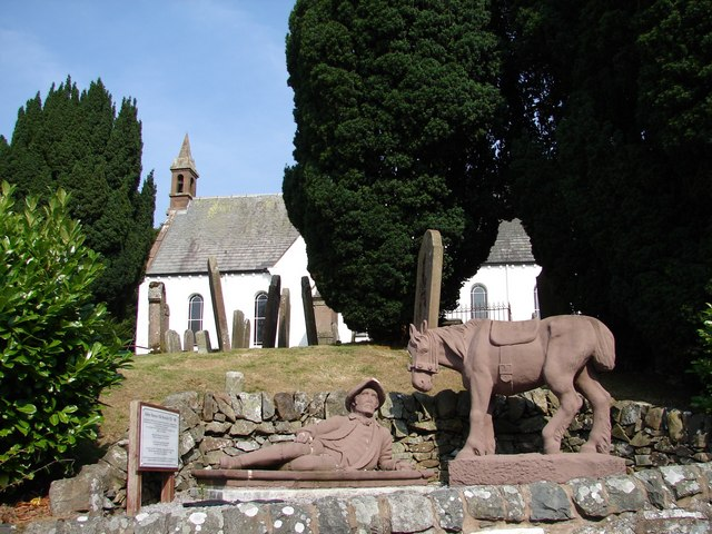 'Old Mortality', Balmaclellan Standing on the churchyard boundary by the roadside the statue (restored 2000) of the mason-engraver Robert Paterson, ‘Old Mortality’ & his pony. Notable stones in the churchyard include a Covenanter's stone and a war grave. The Parish Church dates from 1753.